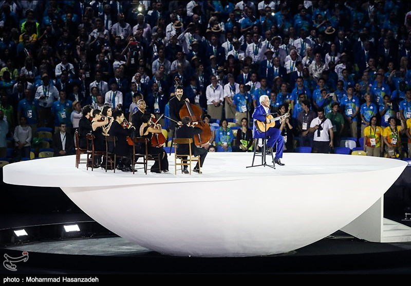 2016 Summer Olympics opening ceremony - photo news agency Tasnimnews